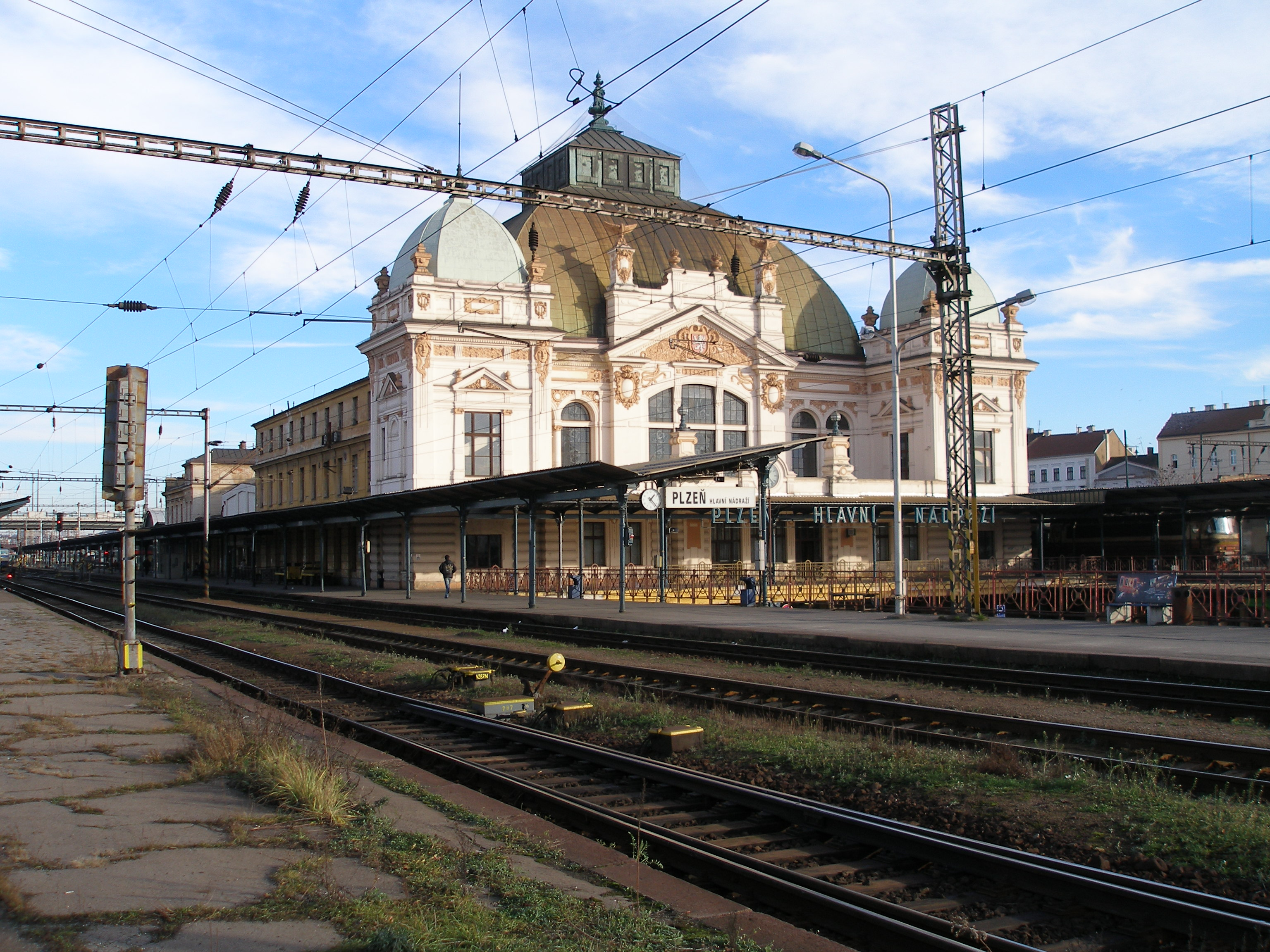 Plzeň hl.n. (main station, railway), Plzeň / Pilsen, Czech Republic